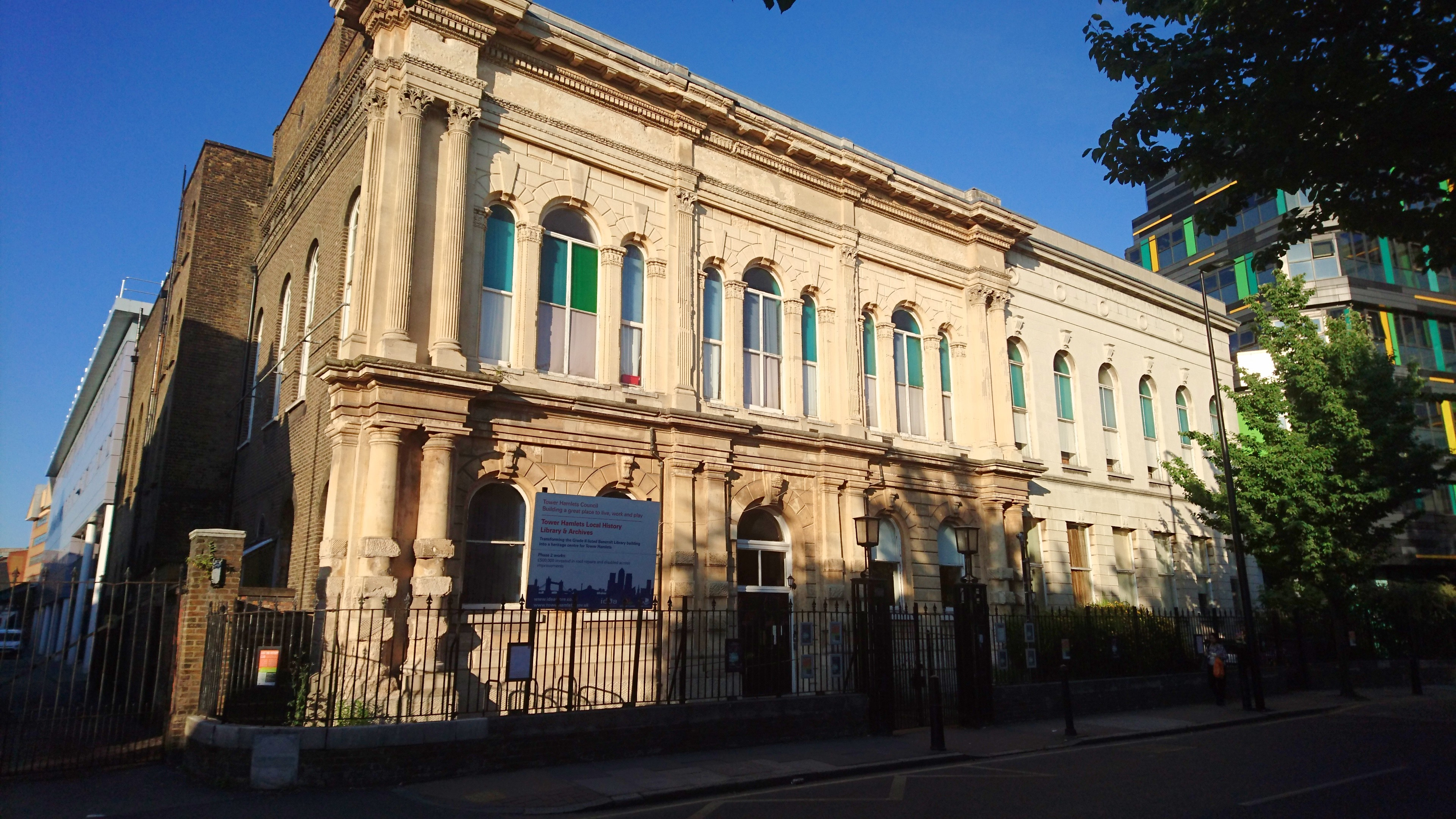 Tower Hamlets Local History Library and Archives Wikidata has entry Q27082946 with data related to this item.